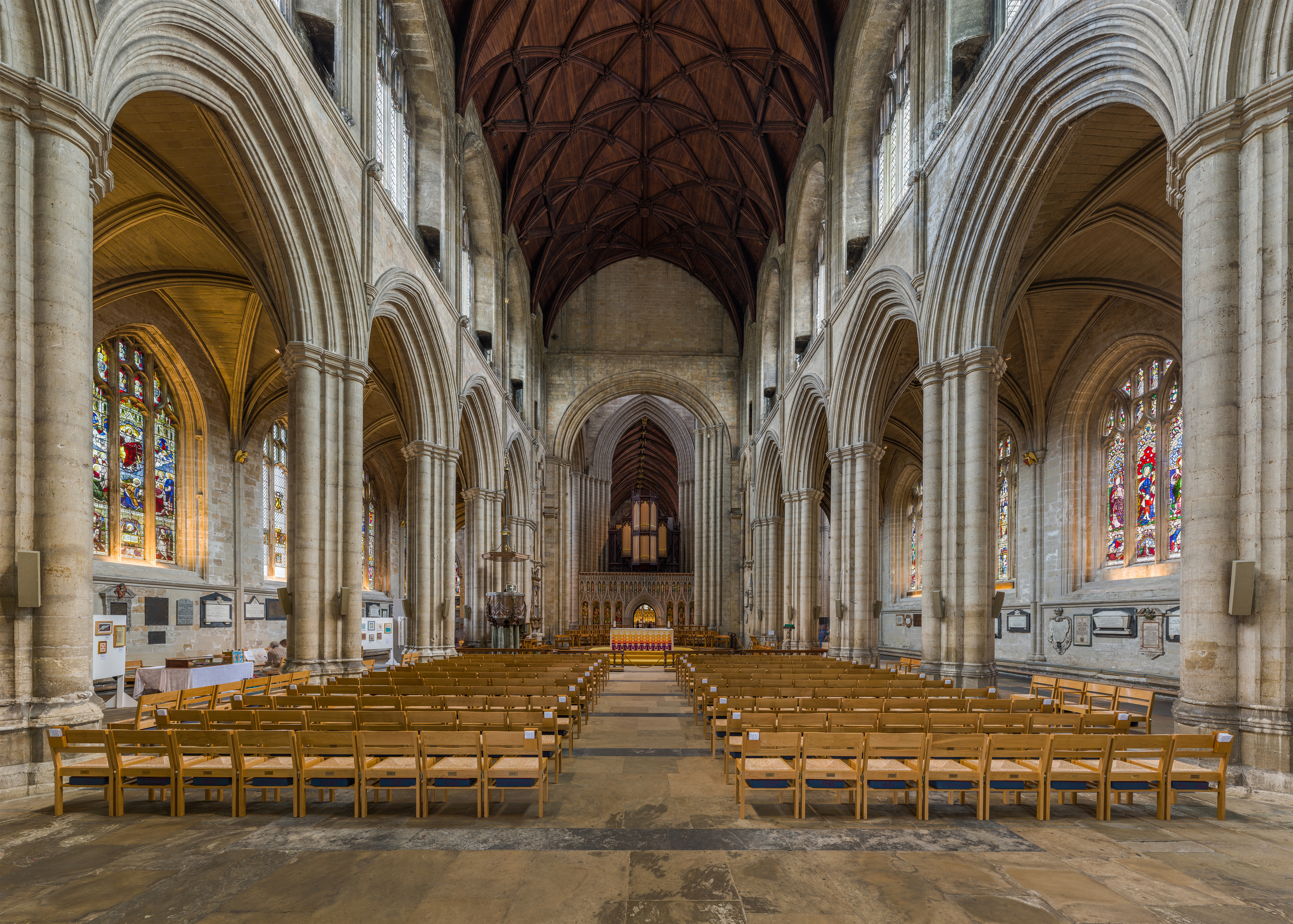 The nave of Ripon Cathedral looking east from the entrance in North Yorkshire, England.